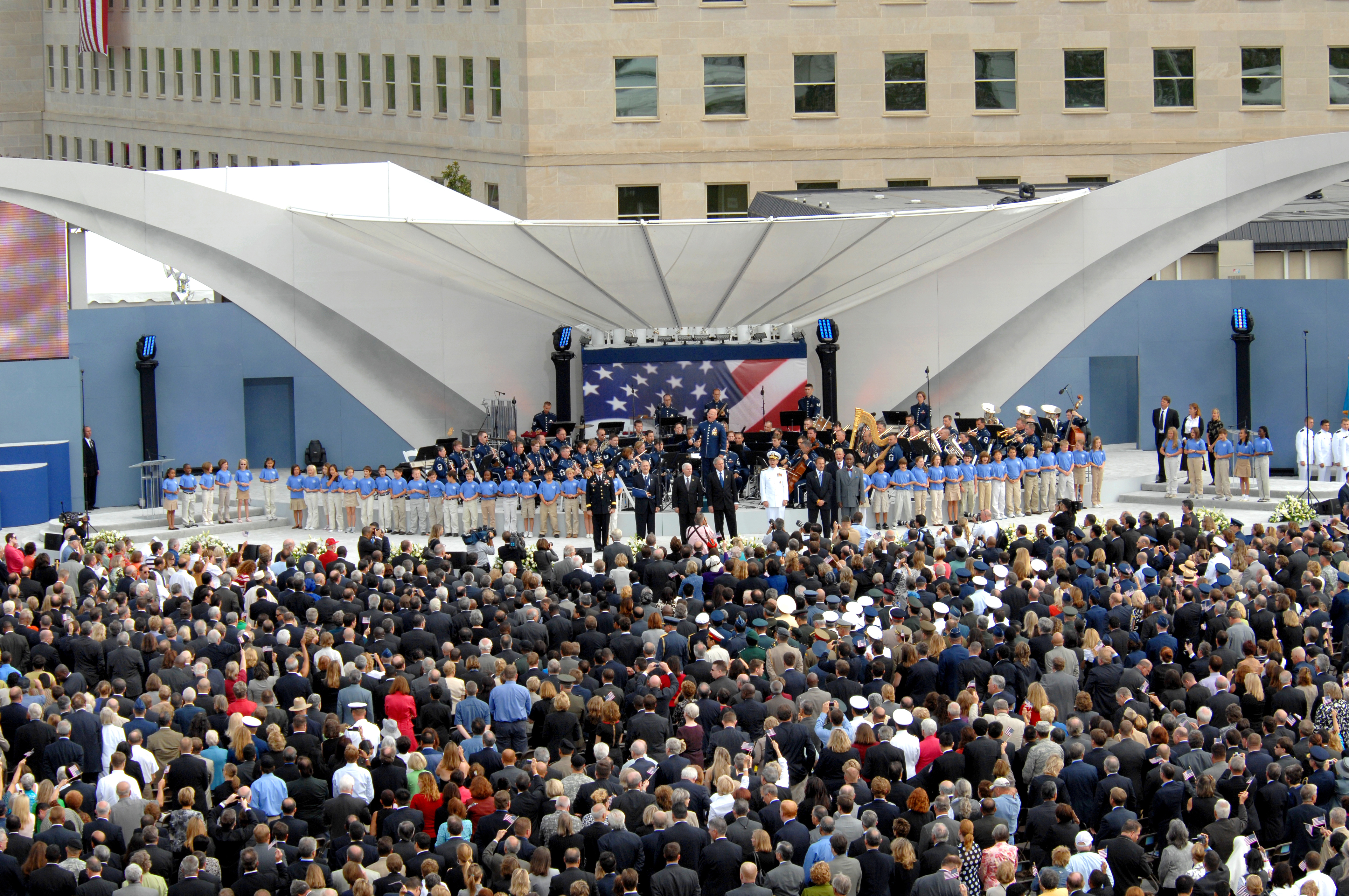 The official party and audience sing "God Bless America" at the Pentagon Memorial dedication ceremony Sept. 11, 2008. The national memorial is the first to be dedicated to those killed at the Pentagon on Sept. 11, 2001.